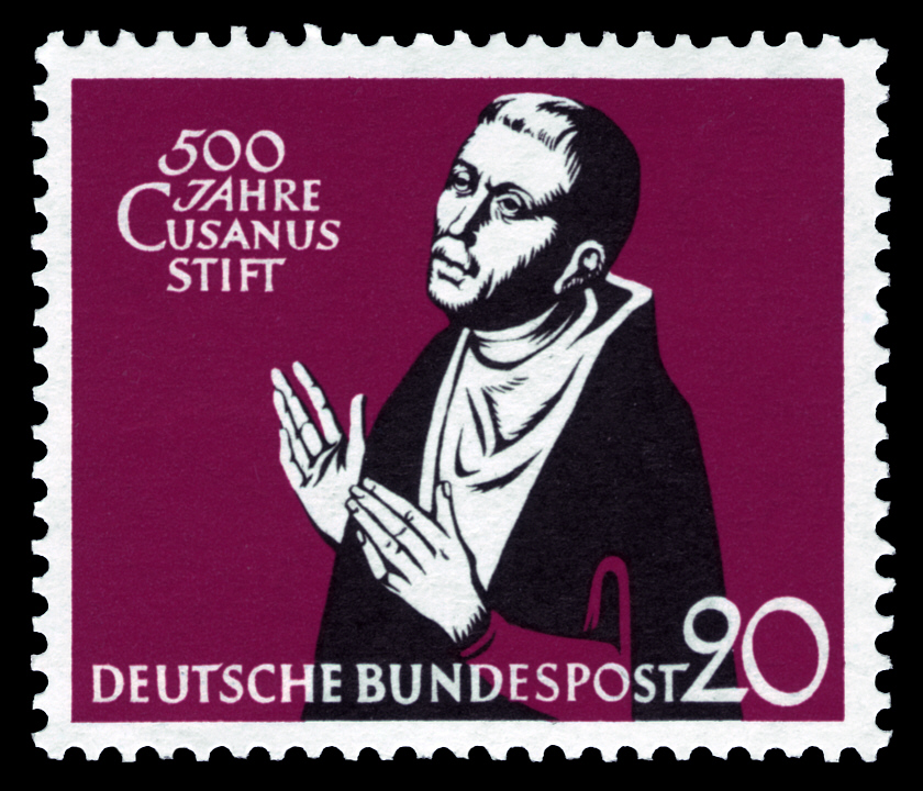 500 years of Cusanusstift Graphics by Kern Ausgabepreis: 20 Pfennig First Day of Issue / Erstausgabetag: 3. Dezember 1958 Michel-Katalog-Nr: 301